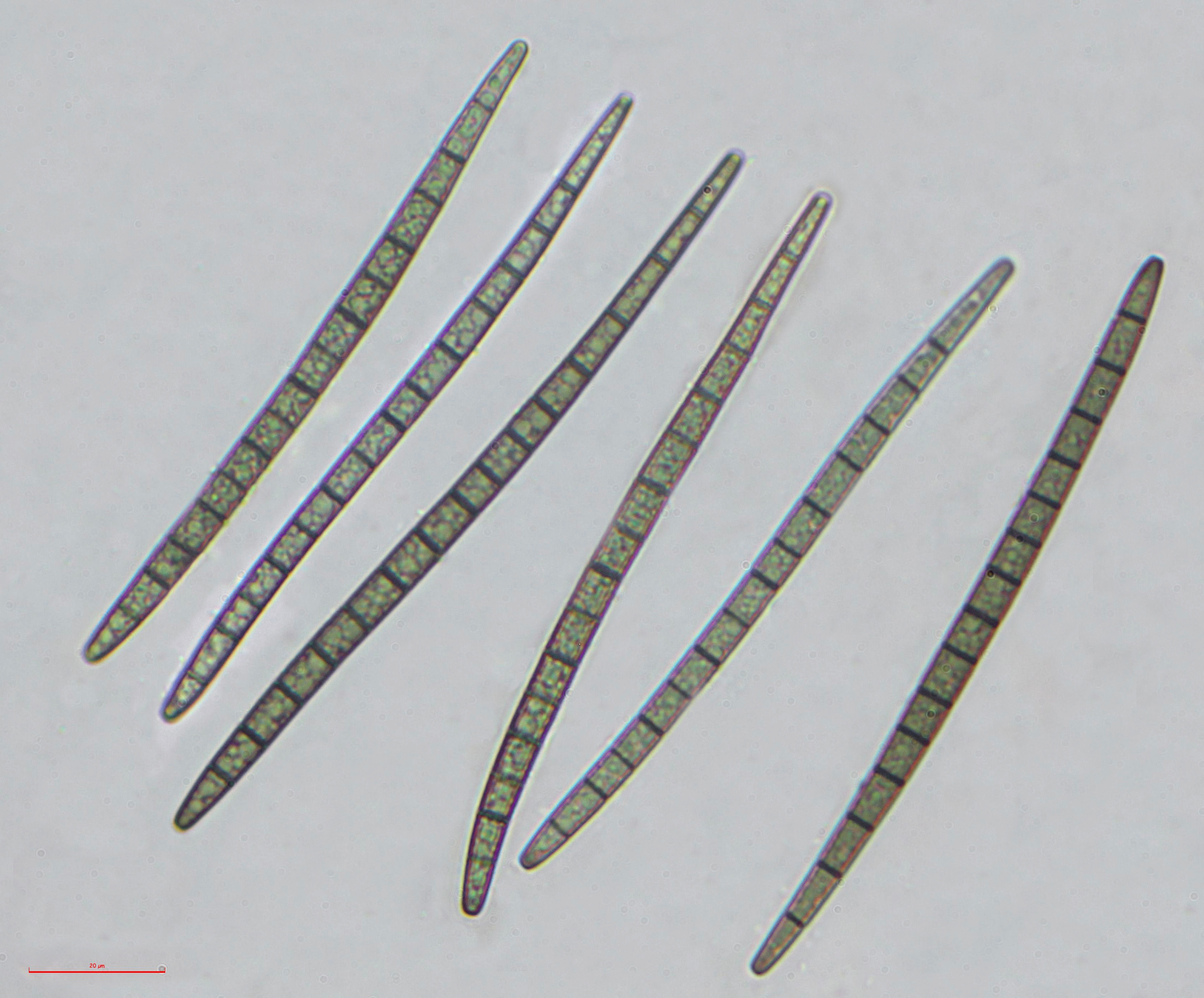 Trichoglossum hirsutum spores, brightfield 400x micrograph. From